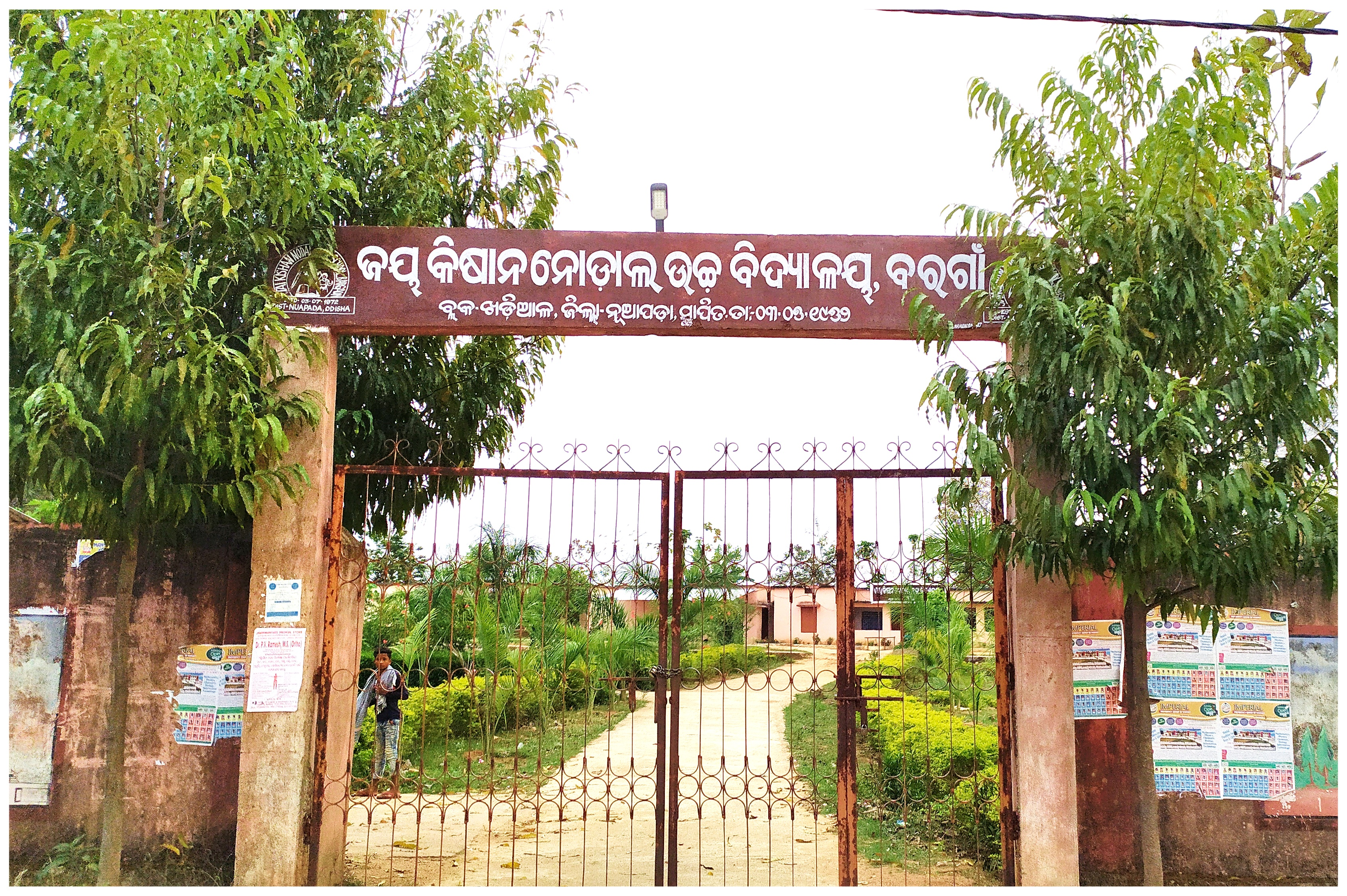 Jai Kishan Nodal High School, Bargaon